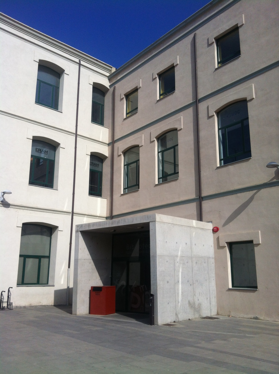 Iu bohigas public library in Salt, Gironès (Catalonia)